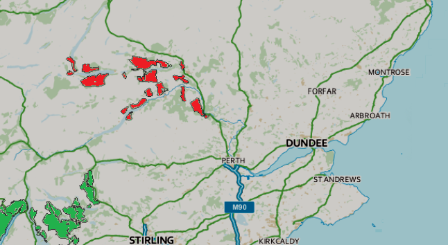 A map showing the location of the Tay Forest Park (in red) within eastern Scotland.